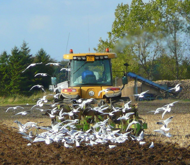 "Following the plough" near to Leverton Lucasgate, Lincolnshire, Great Britain. A fine October sight! The Caterpillar Challenger tractor leads a procession of gulls across this field between the old and new Sea Banks near Leverton Lucasgate. Beyond the scene, by the windbreak trees is a pile of beet and an elevator used to get the crop into the lorries.